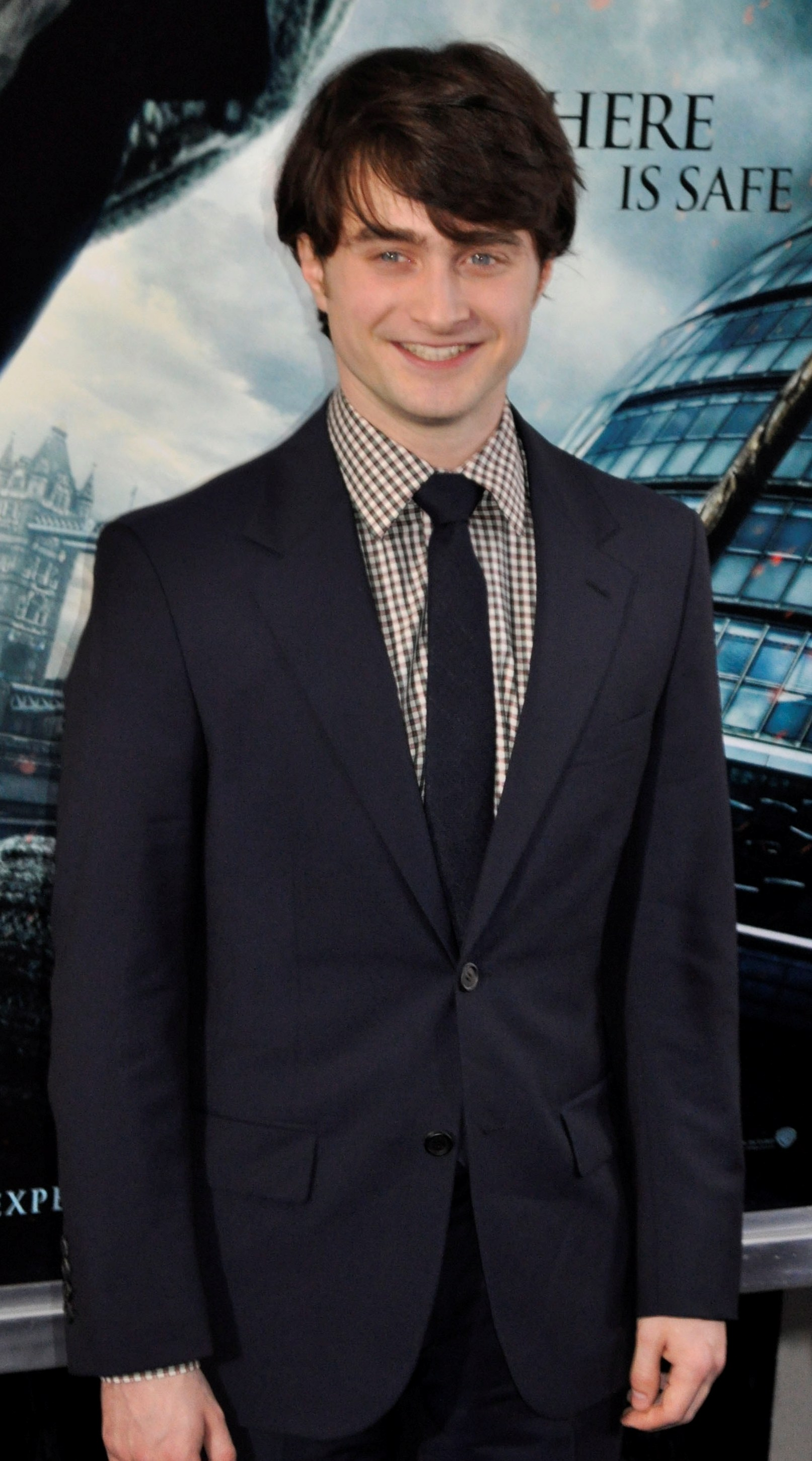 Daniel Radcliffe at the film premiere of Harry Potter and The Deathly Hallows in Alice Tully Center, New York City in November 2010.